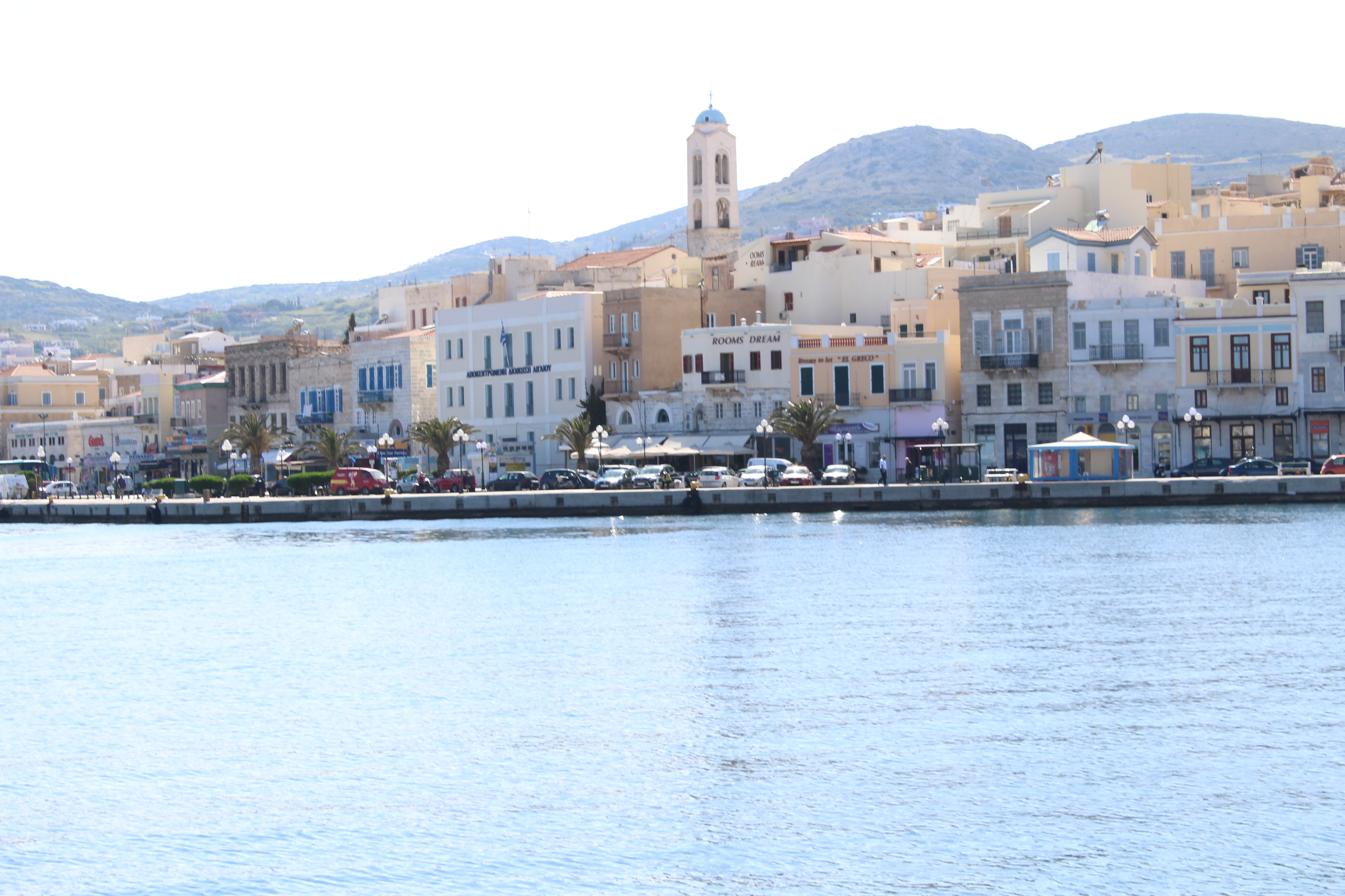 Ermoupolis, Syros